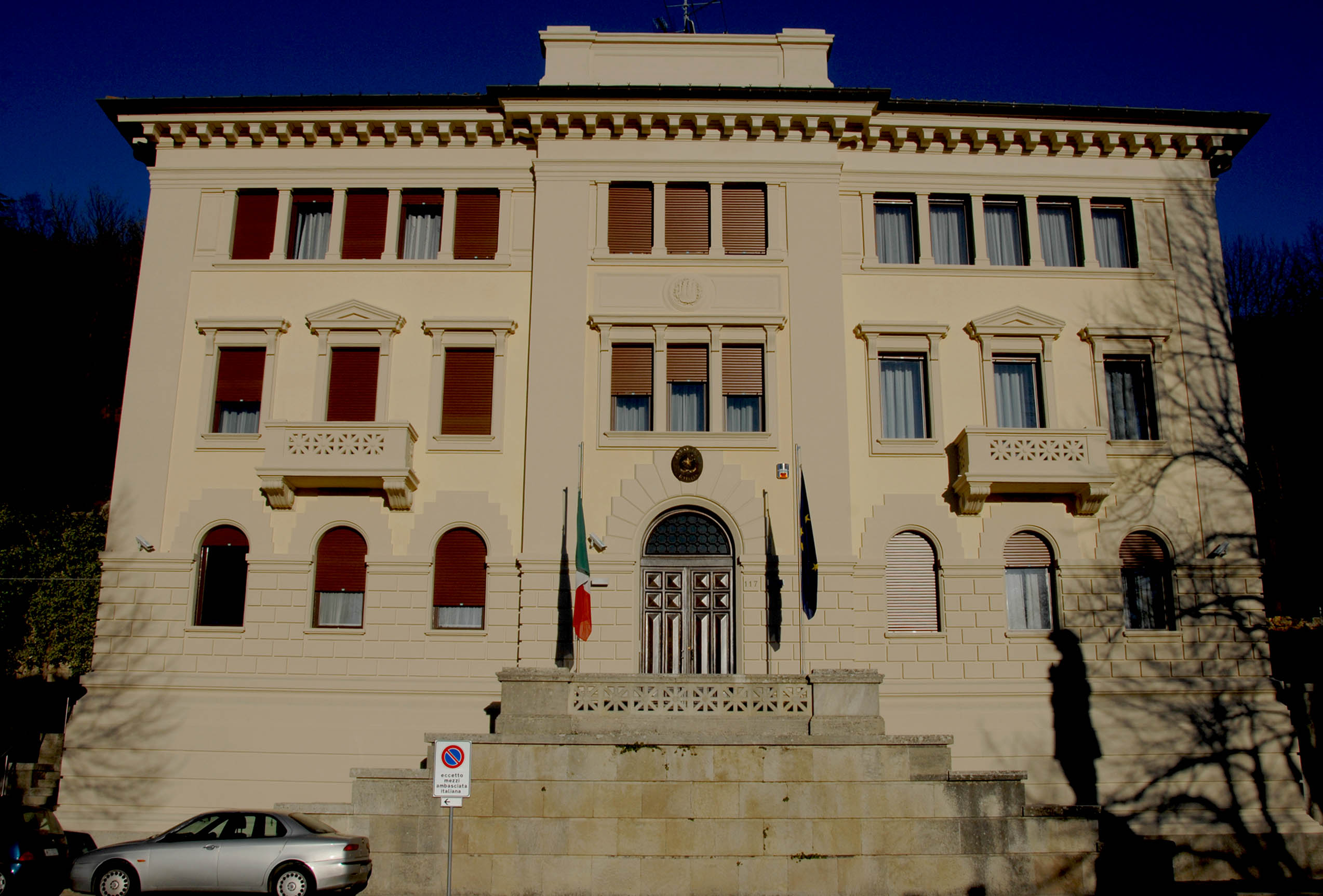 Italian Embassy in San Marino, in San Marino city (SMR) in Viale Antonio Onofri, 117. This embassy is one of three embassies situated in San Marino. The others are the Apostolic Nunciature and the embassy of the Sovereign Military Order of Malta.